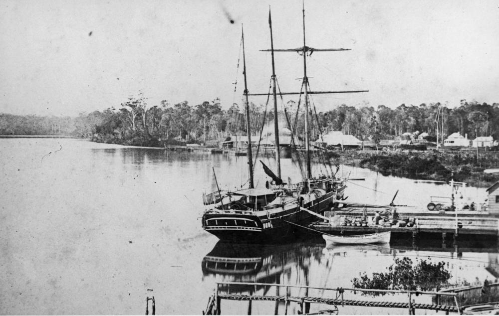 Eagle (ship) The S. S. Eagle at Maryborough.